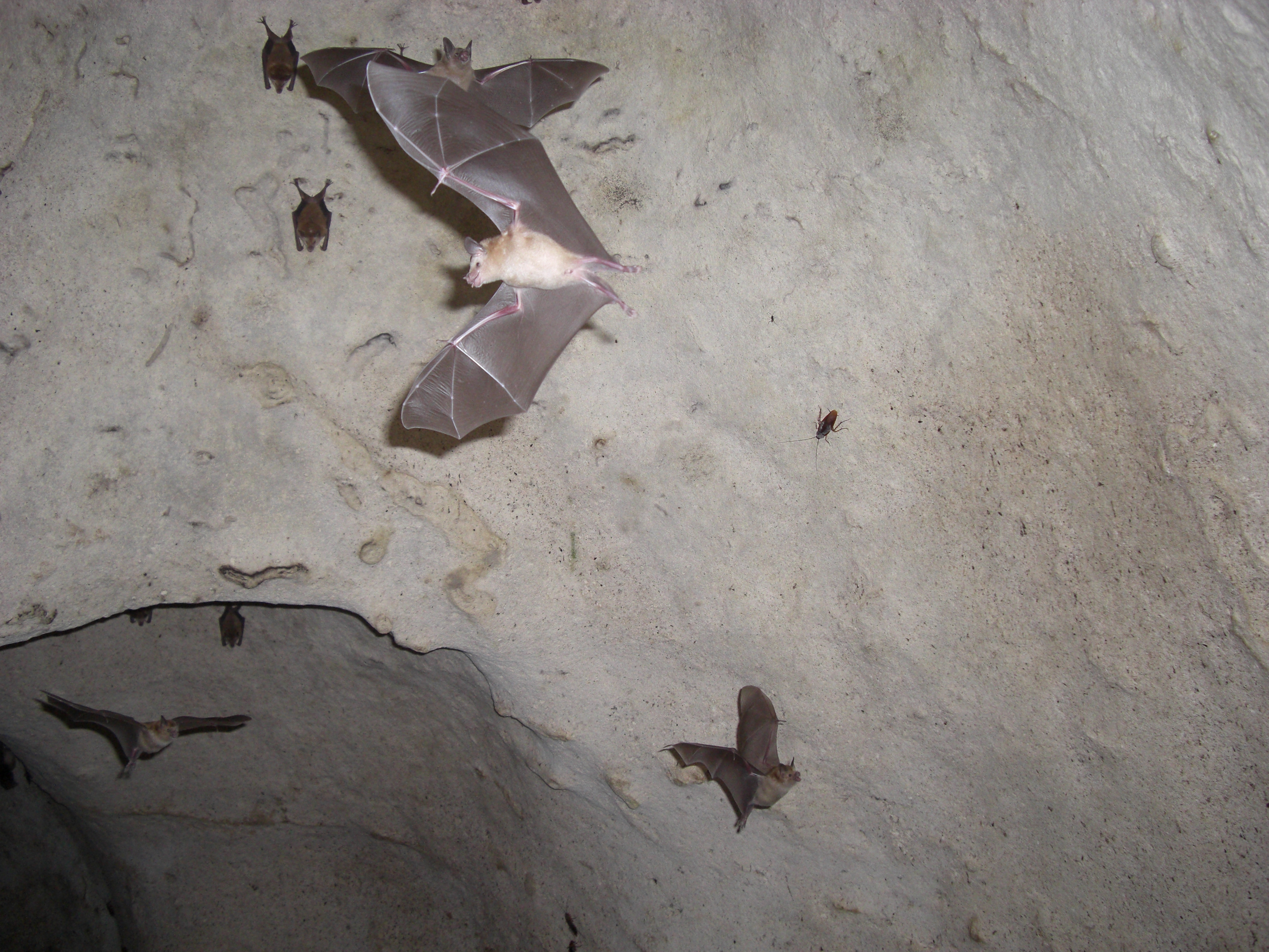 Wild Bats in Private Cave in Nassau, The Bahamas.